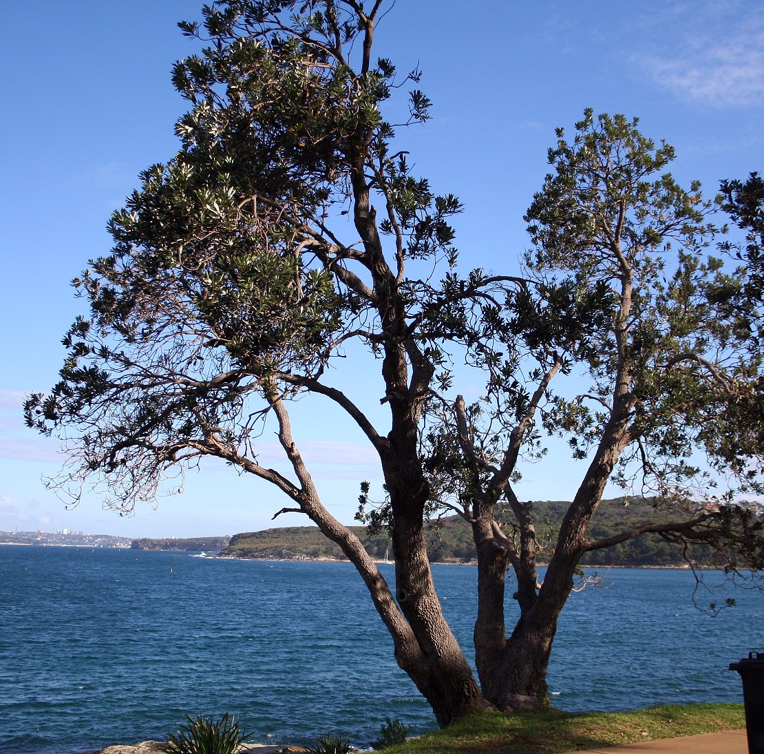 Banksia integrifolia integrifolia, gnarled tree Manly, Sydney, NSW